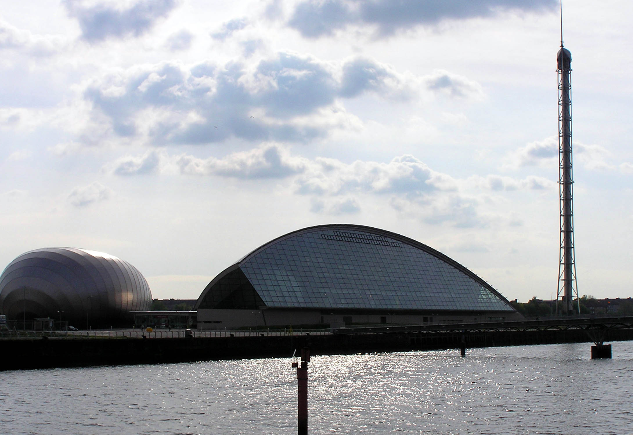 Glasgow Science Centre in Glasgow, Scotland.